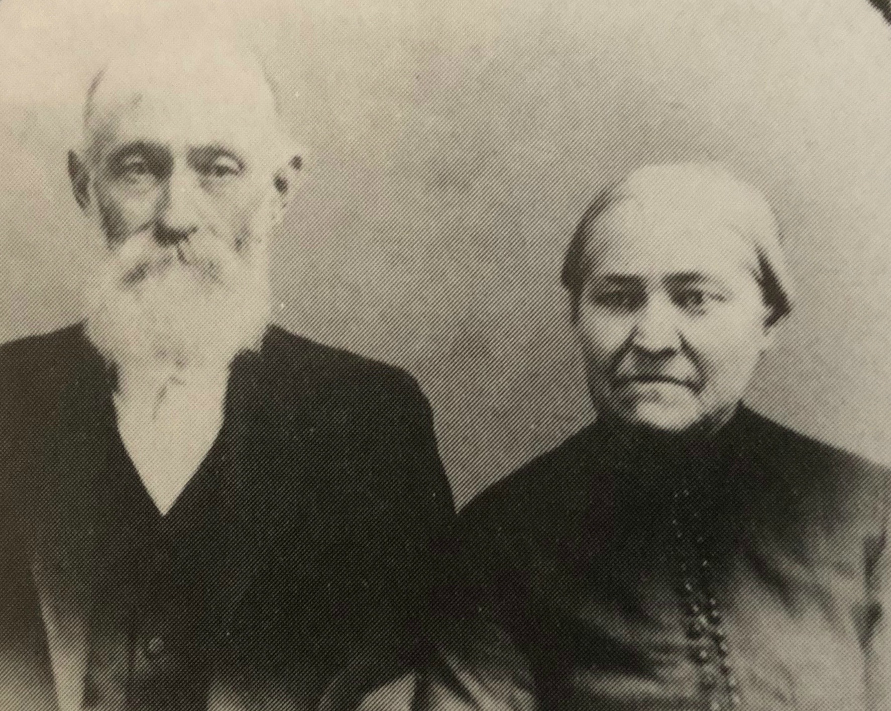 Portrait photograph of American quilter, Susan McCord and her husband Green McCord, circa 1885